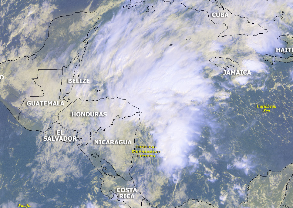 Tropical Depression Fifteen affected Central America on October 30, 2001.